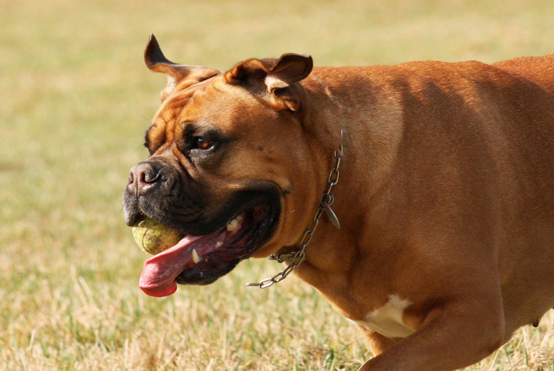 März 2012 Creative Commons Licence BY 2.0 Quellenangabe / Credit: Photo by Maja Dumat